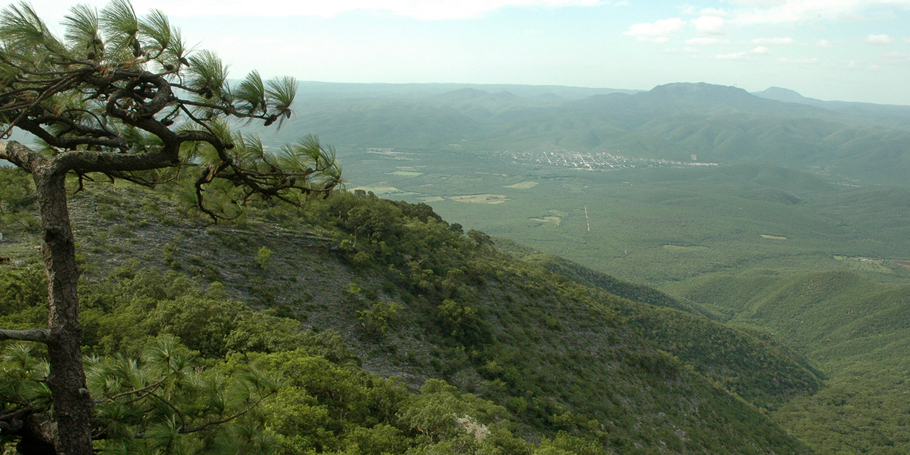 This photo was taken in the Sierra San Carlos near Bufa El Diente, looking north to the town of San Carlos (seen just right of center in mid-ground), and a pine tree (Pinus teocote) growing on the left. Municipality of San Carlos, Tamaulipas, Mexico (24.5299°N, 98.9586°W, 1060 m. elev.). Photographed on 12 July 07 by William L. Farr.